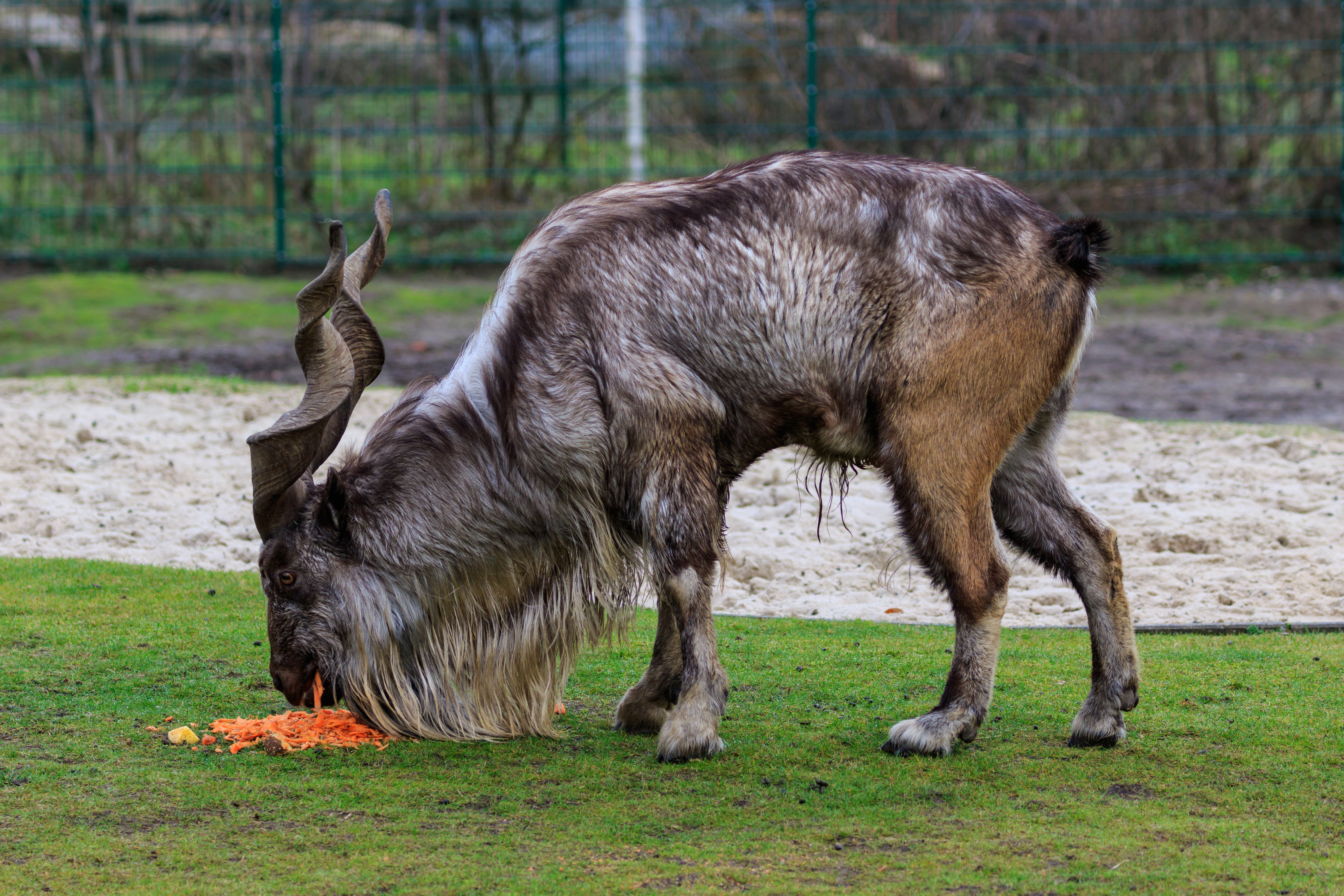 A Markhor in the Berlin Tierpark (Friedrichsfelde zoo)